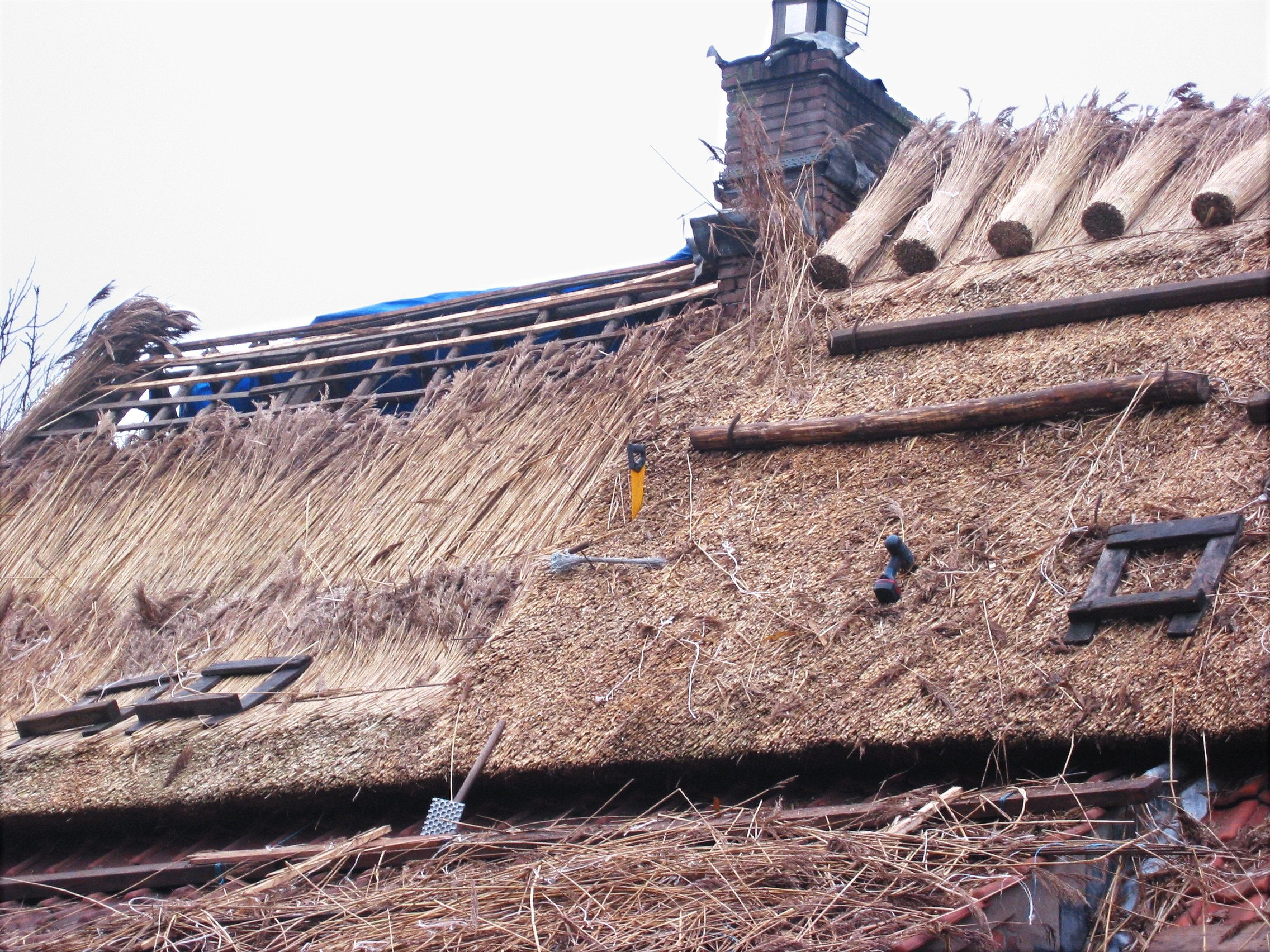 Thatching a roof